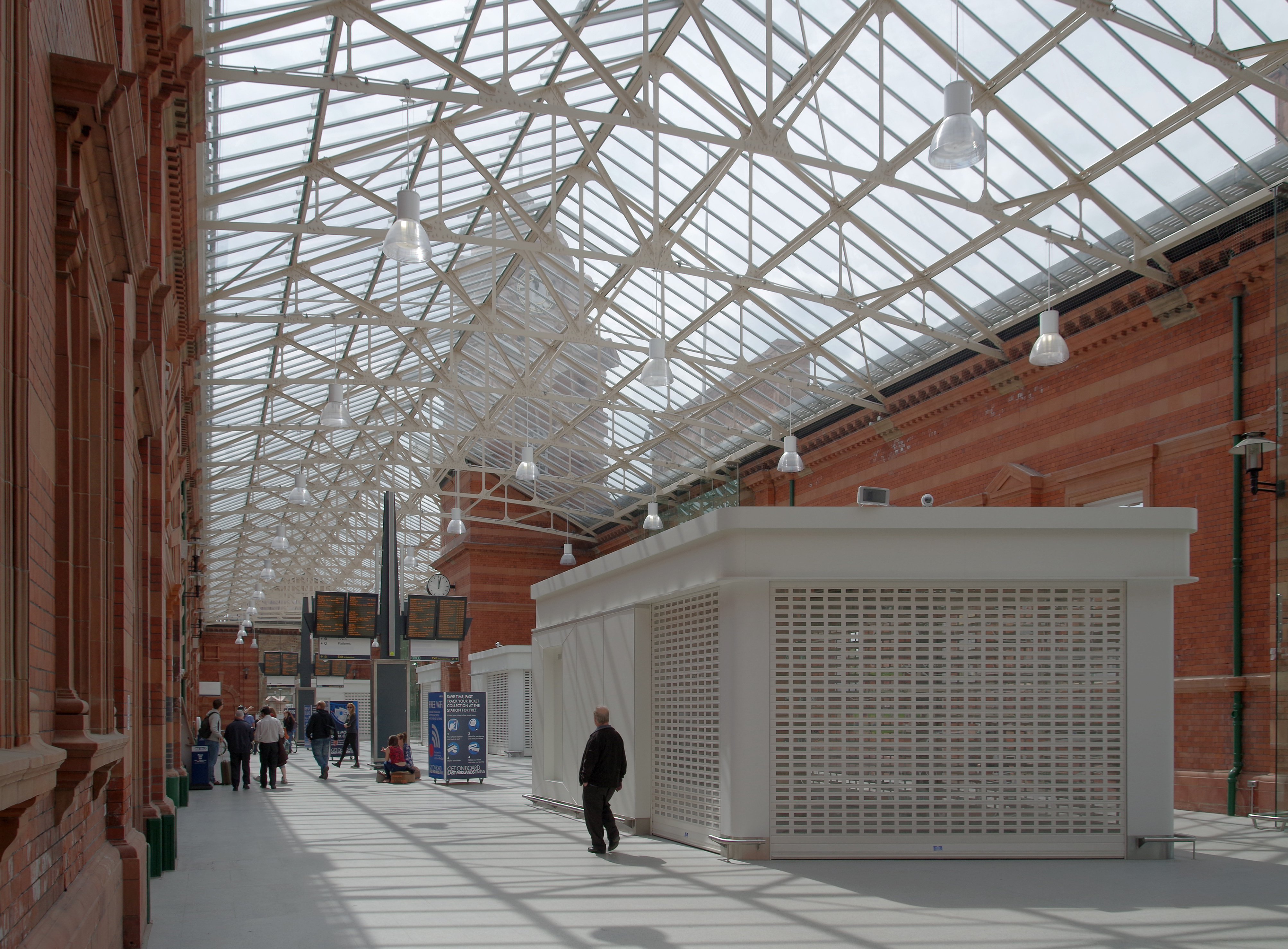 The new expanded concourse at Nottingham railway station. This bit used to be the taxi rank.